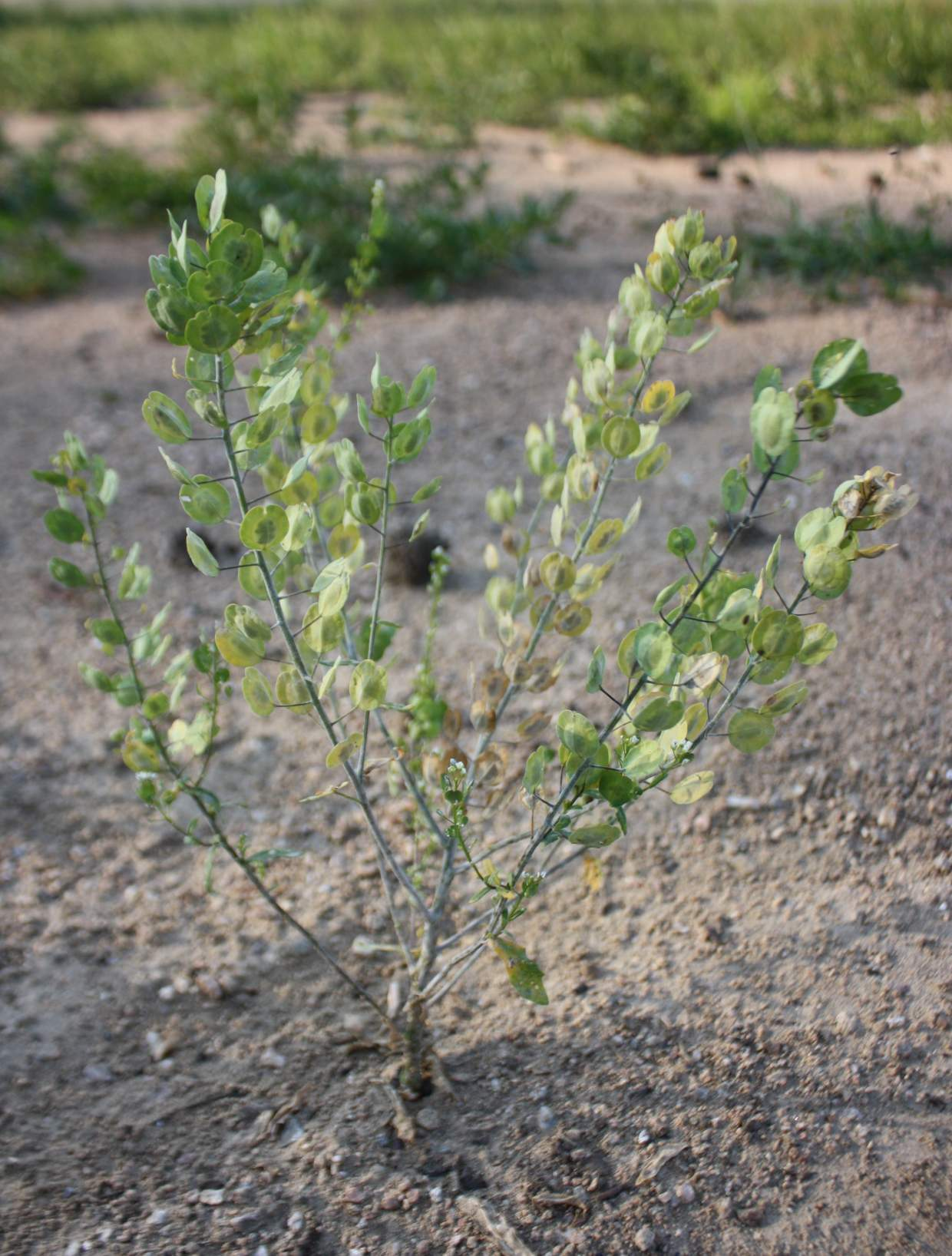 Thlaspi arvense, Brno Dam